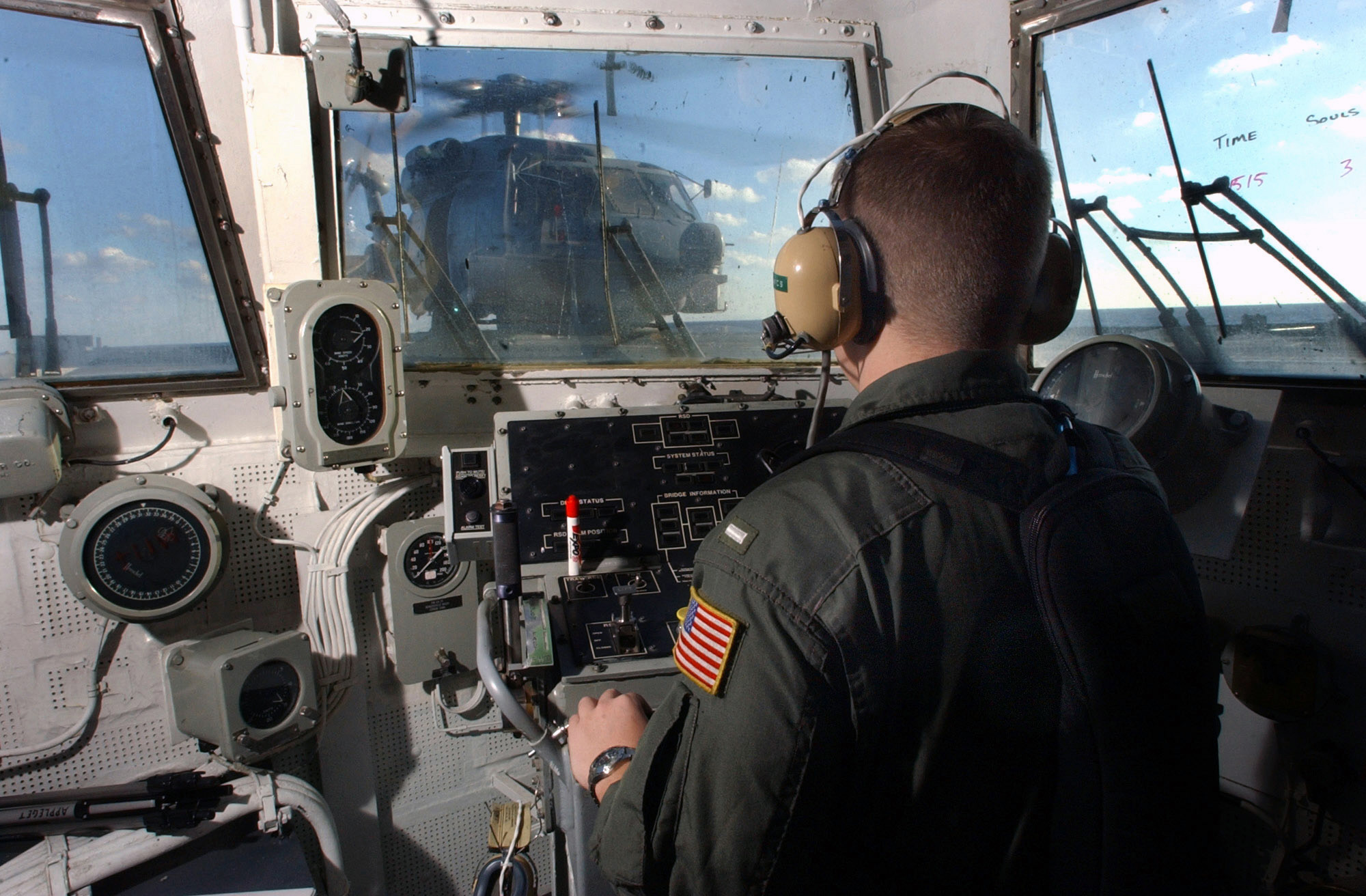 At sea aboard USS Oscar Austin (DDG 79) Nov. 2, 2002 – Lt.j.g. Ike R. Stutts recovers a SH-60B Seahawk assigned to the "Carnivorous Hellions" of Helicopter Anti-Submarine Squadron Light Four Eight (HSL-48), Detachment Six, from the ship’s Landing Signals Officer (LSO) station aboard the guided missile destroyer USS Oscar Austin (DDG-79). Oscar Austin is underway for a Joint Task Force Exercise (JTFEX). U.S. Navy photo by Photographer's Mate 1st Class Michael W. Pendergrass. (RELEASED)